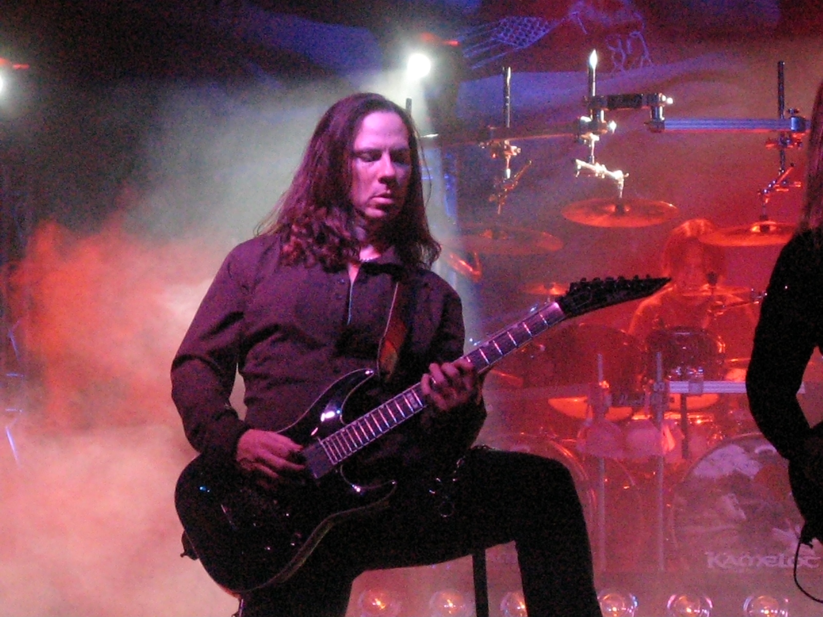 Thomas Youngblood of Kamelot at the Wulfrun Hall, Wolverhampton